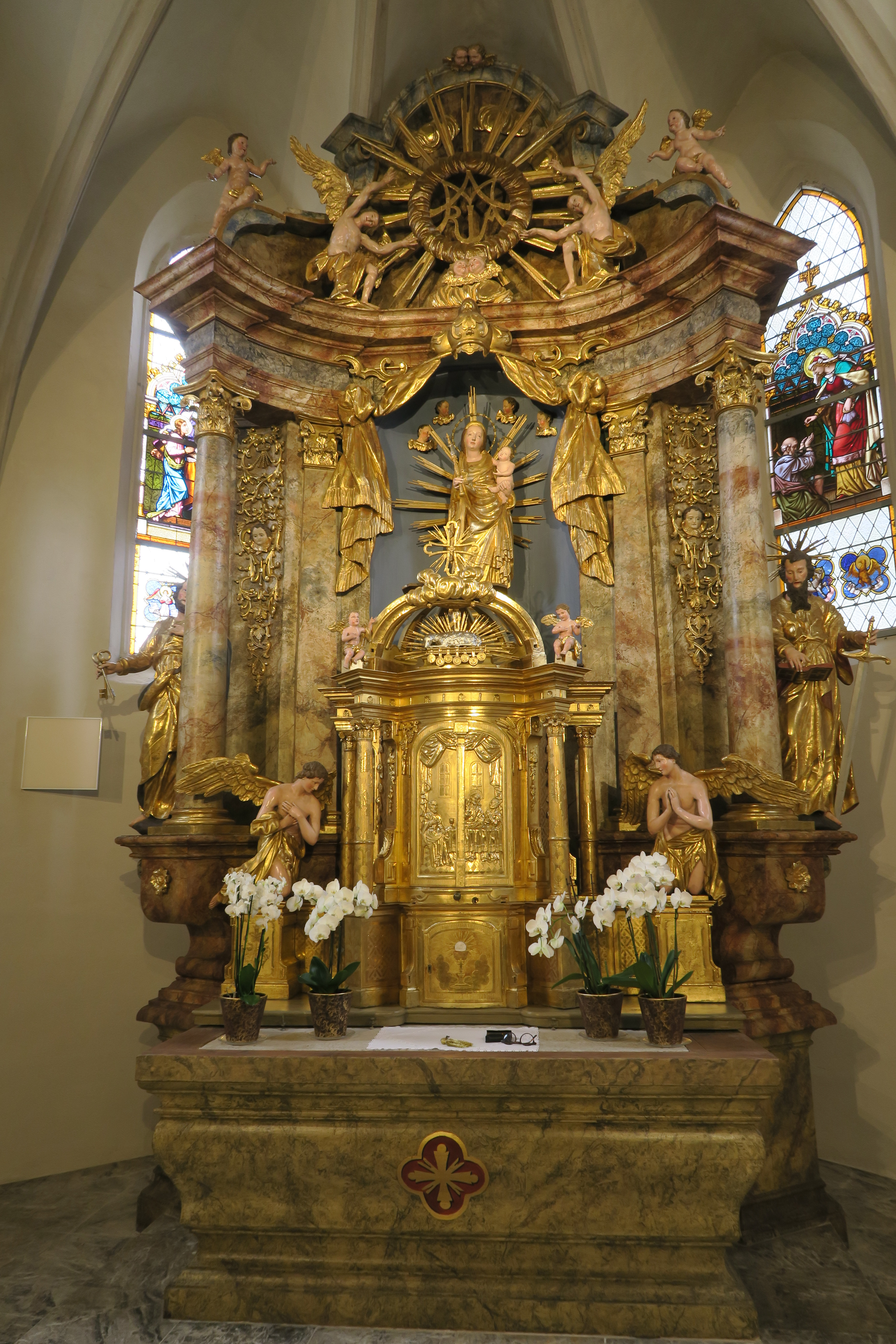 Church Pfarrkirche Mariae Gnadenbrunn, Burgau, Styria - Interior